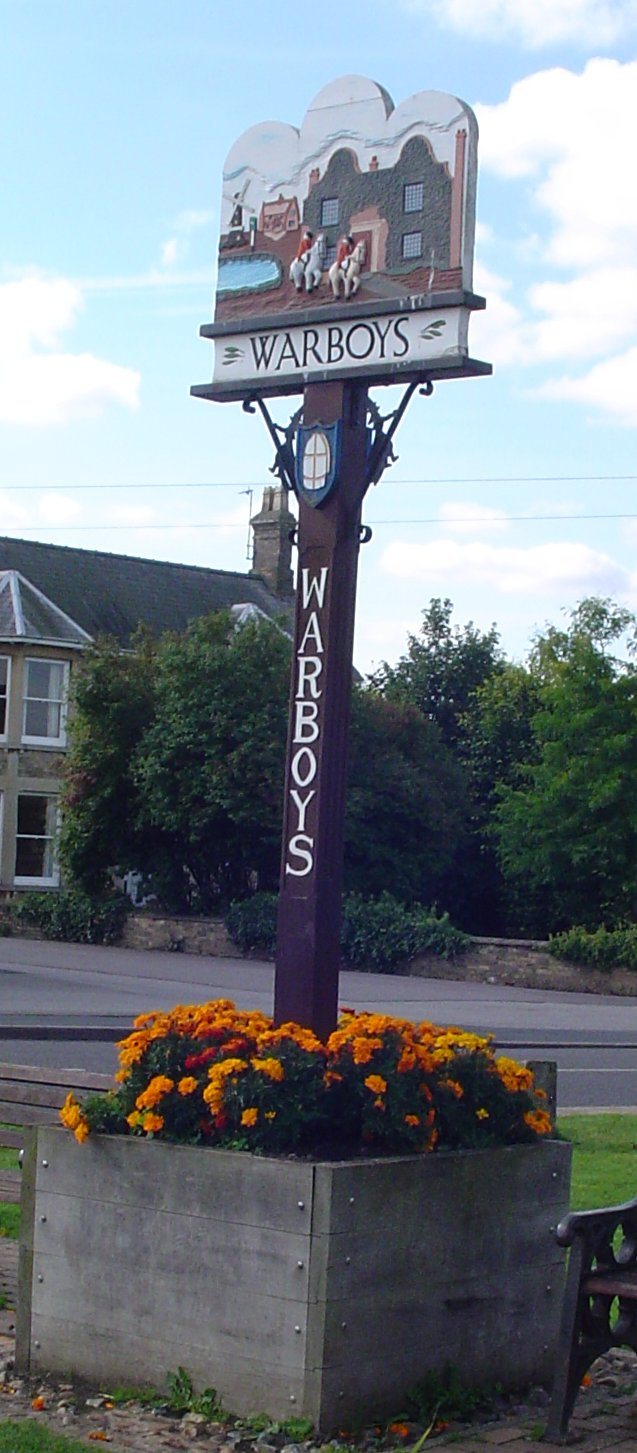 Signpost in Warboys